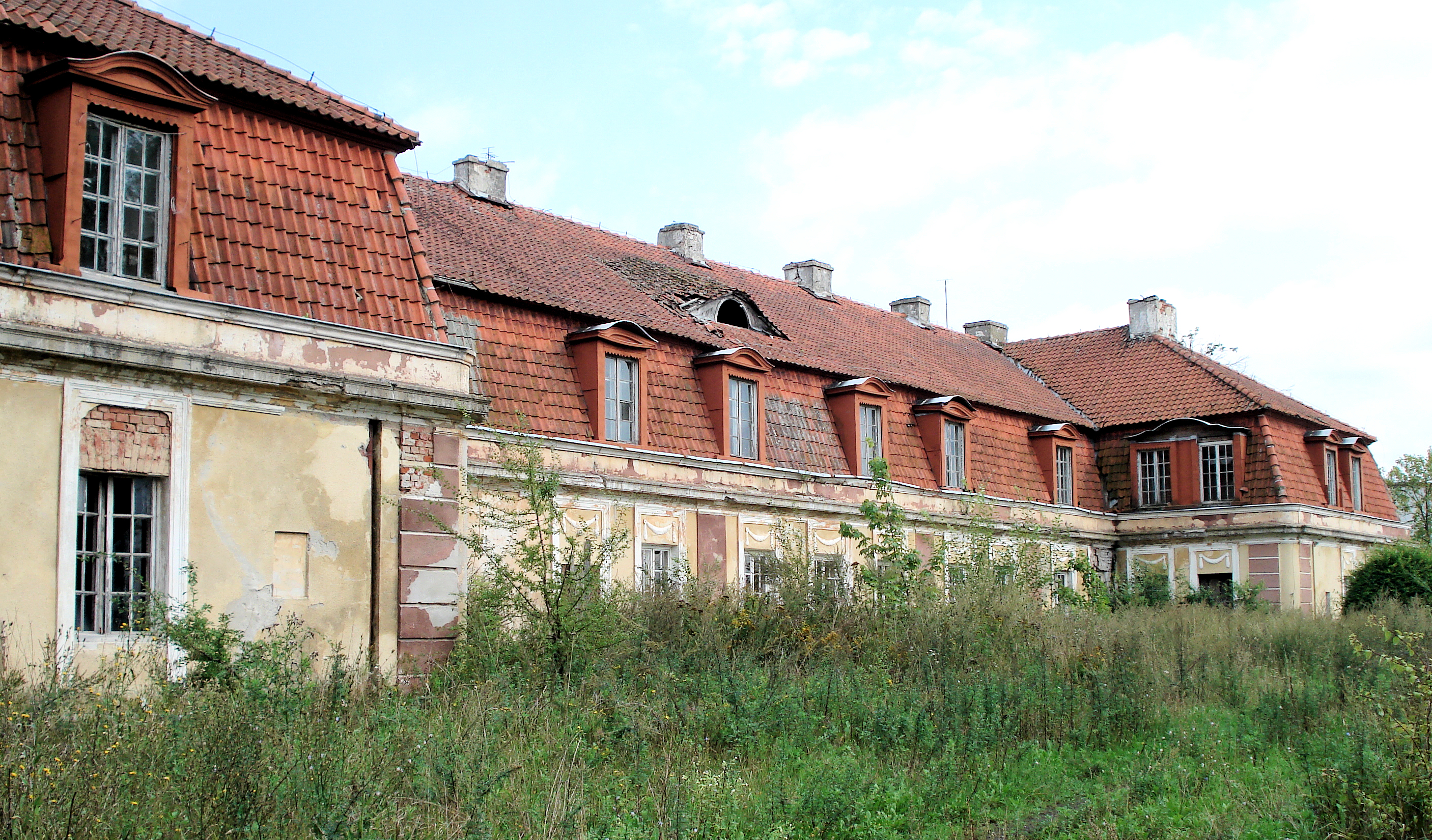 Palace in Wielewo